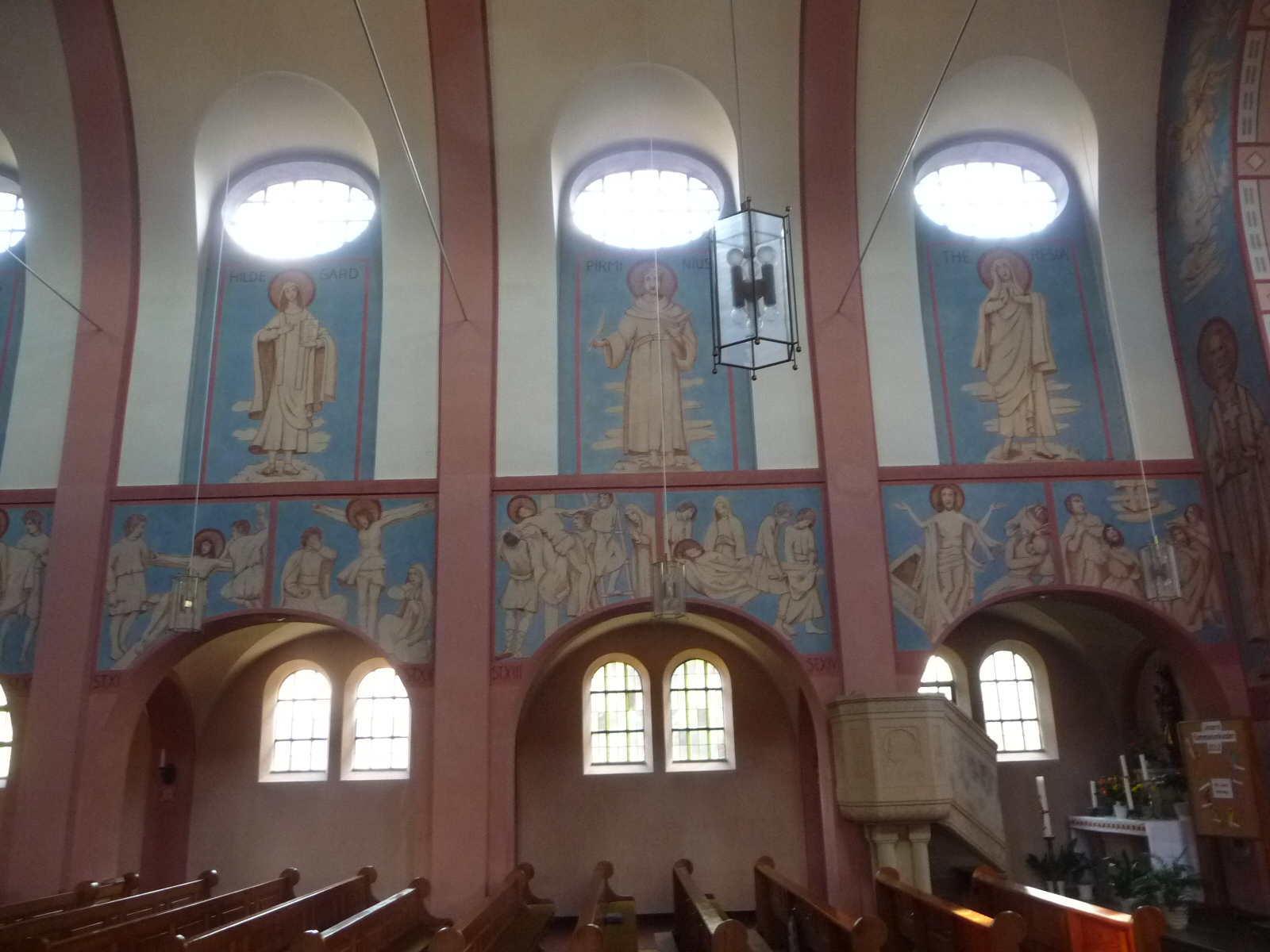 catholic church in Ramsen (Donnersbergkreis, Rhineland-Palatinate, Germ